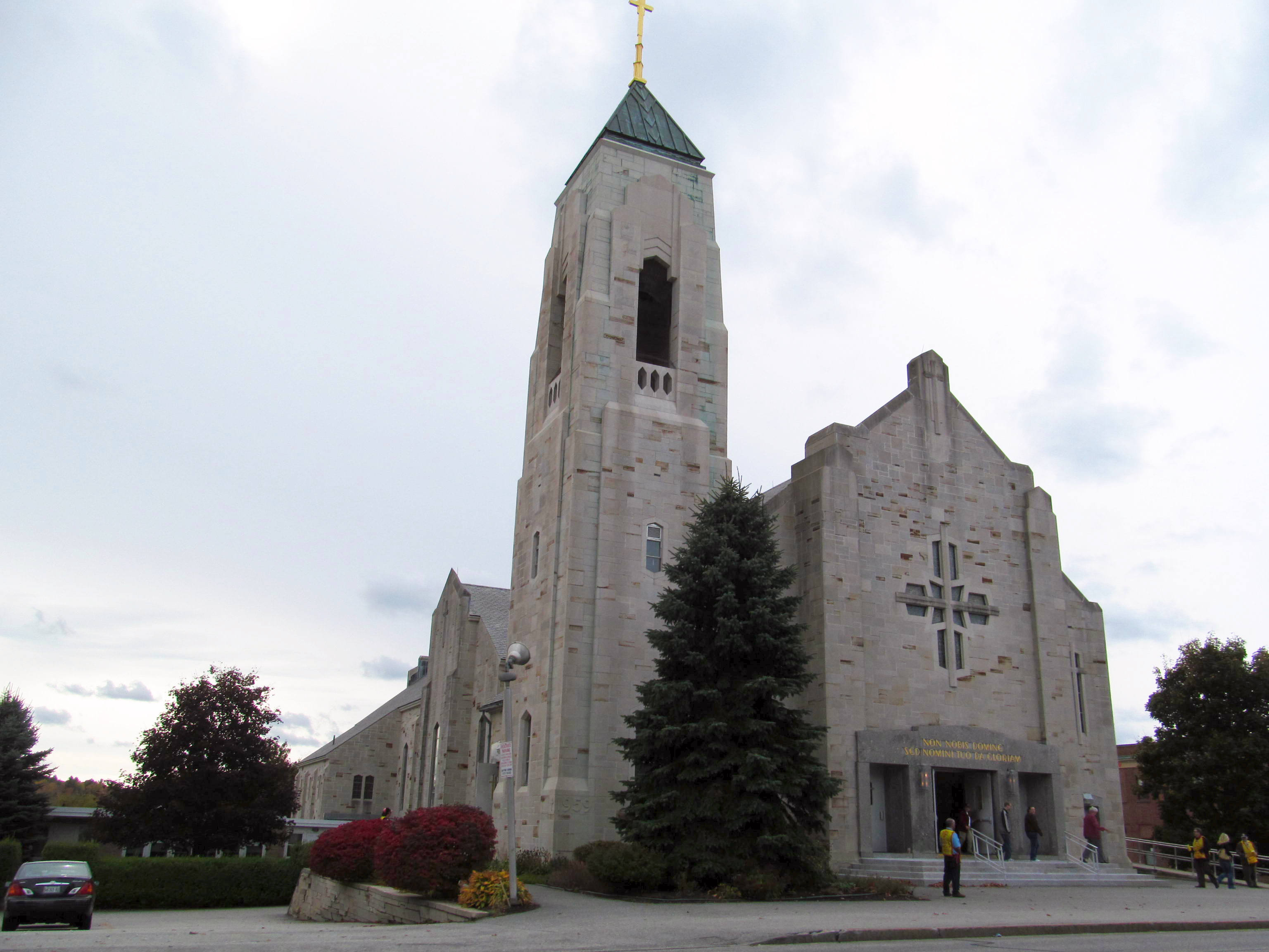 Holy Family Catholic Church, Lewiston, Maine